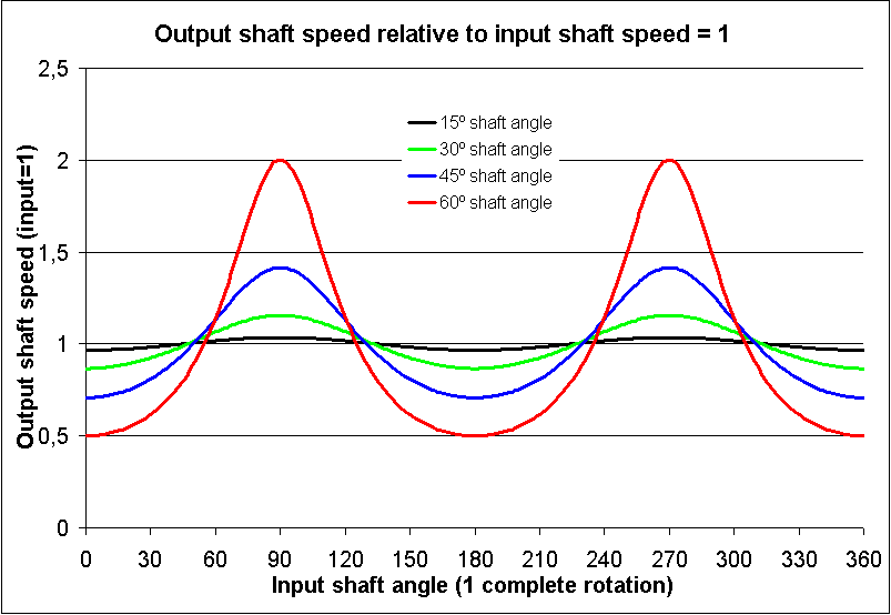 Equation used: Where: ω2 is the speed of the output shaft ω1 is the speed of the input shaft, set to 1 β is the angle between the shafts φ1 is the rotation angle of the input shaft This graph image could be recreated using vector graphics as a SVG file. This has several advantages; see Commons:Media for cleanup for more information. If an SVG form of this image is available, please upload it and afterwards replace this template with vector version available|new image name.svg . (Original text: Output shaft speed relative to input shaft speed of a universal joint)